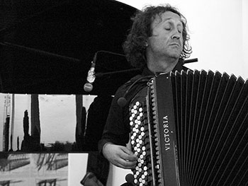 Luciano Biondini